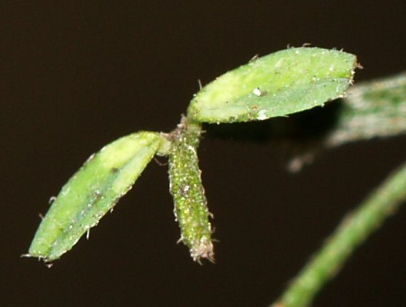 Carmichaelia arborea leaves, from Botanical Garden (Flora) of Cologne, Germany.